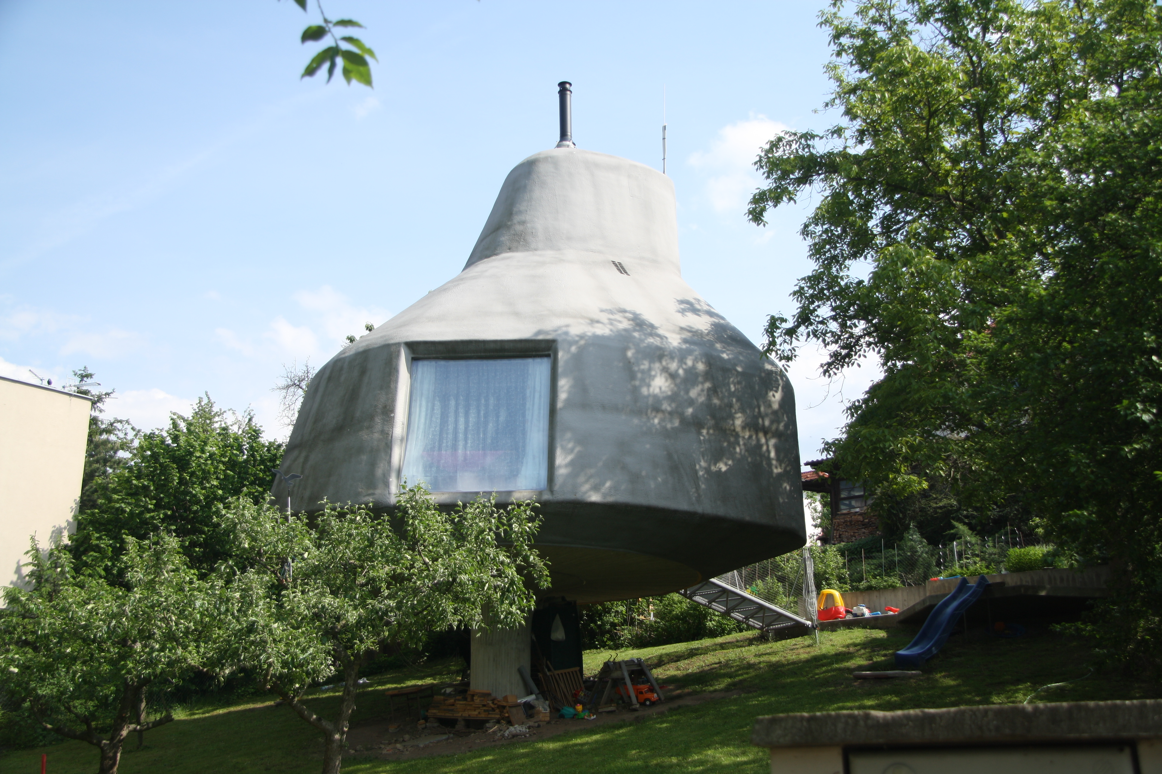 Overview of Villa K Rokytce 1686 by Jan Šépka in K Rokytce street in Kyje, Prague.